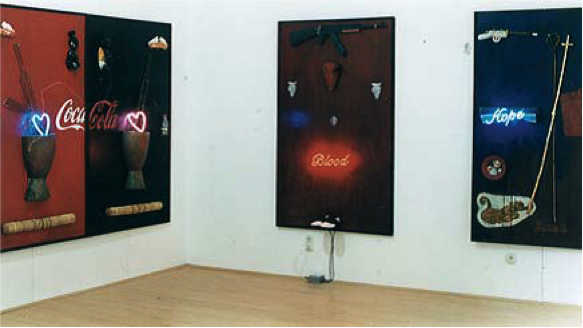 Installation of Coke Adds Life, Everrad Read gallery Johannesburg By Wayne Barker